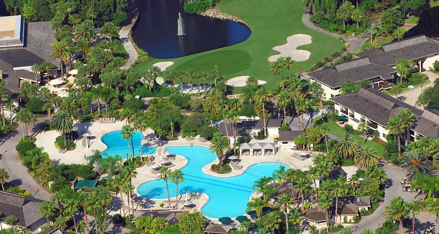 Resort